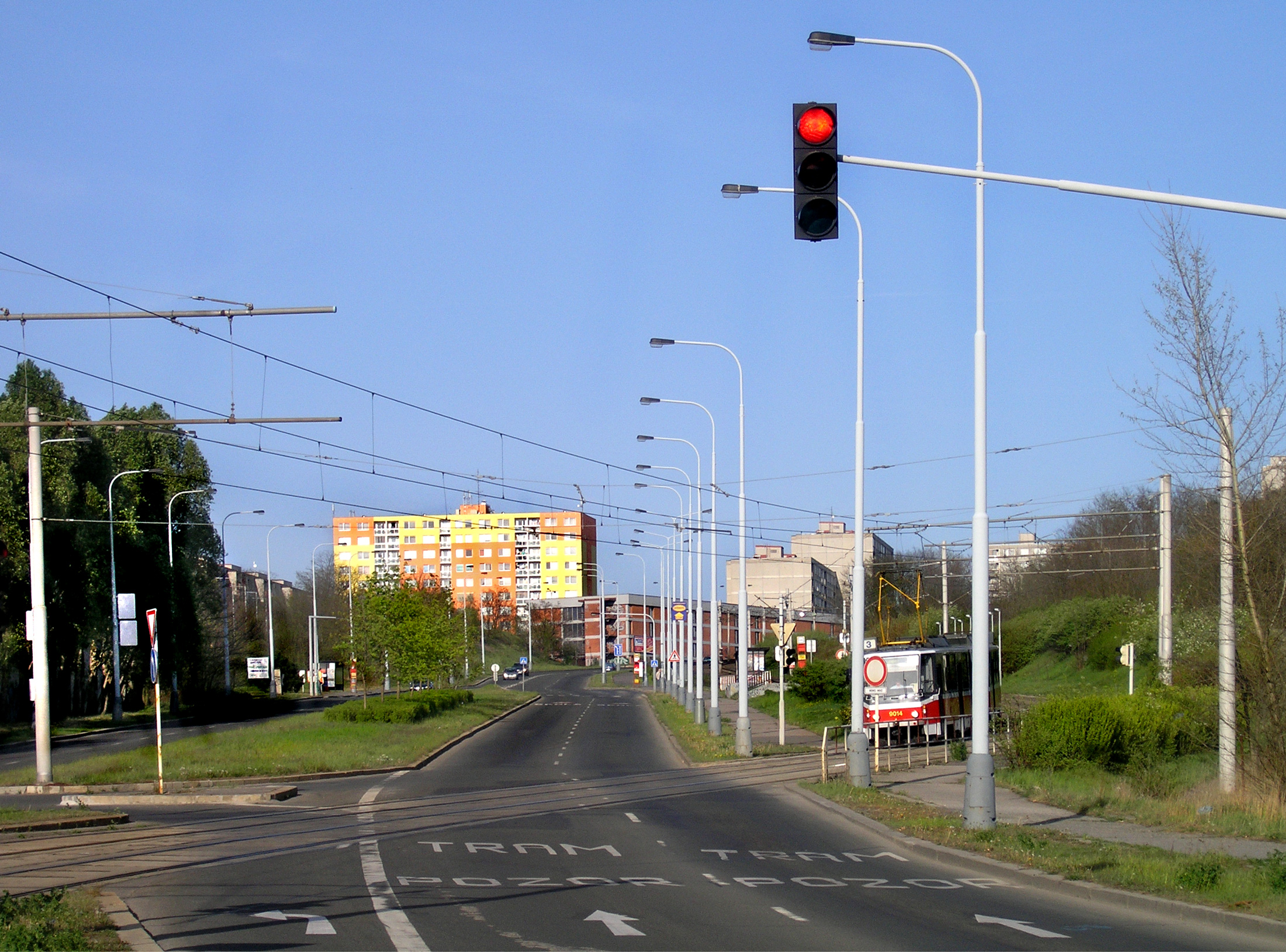 Generála Šišky street at Modřany, Prague